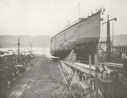 French battleship Voltaire